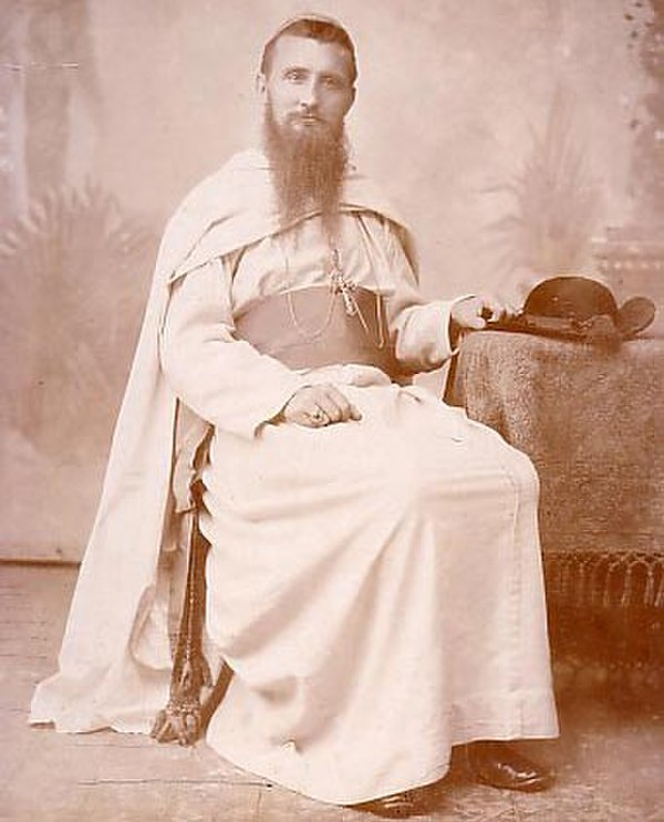 Mgr Victor Roelens, apostolisch prefect ven Boudewijnstad, de allereerste bisschop in Congo (Mgr Victor Roelens, Vicar Apostolic of Baudouinville, the highest bishop in the Congo)